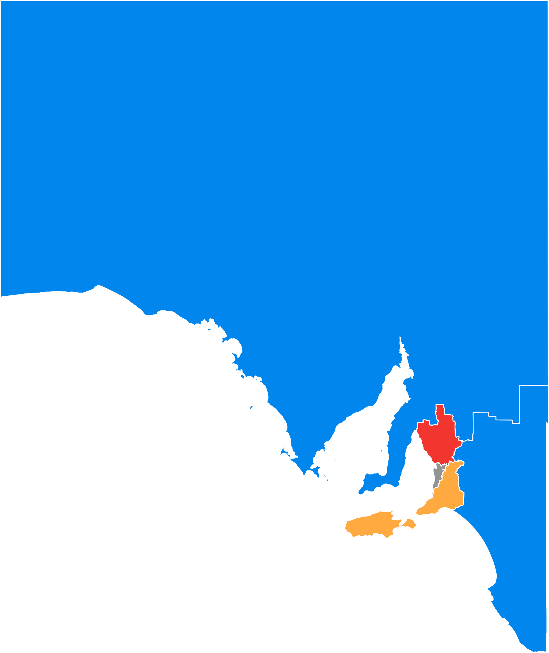 Results map of the Australian federal election, 2016 in South Australia, showing federal electorates decorated in the color representing a win by a particular party.